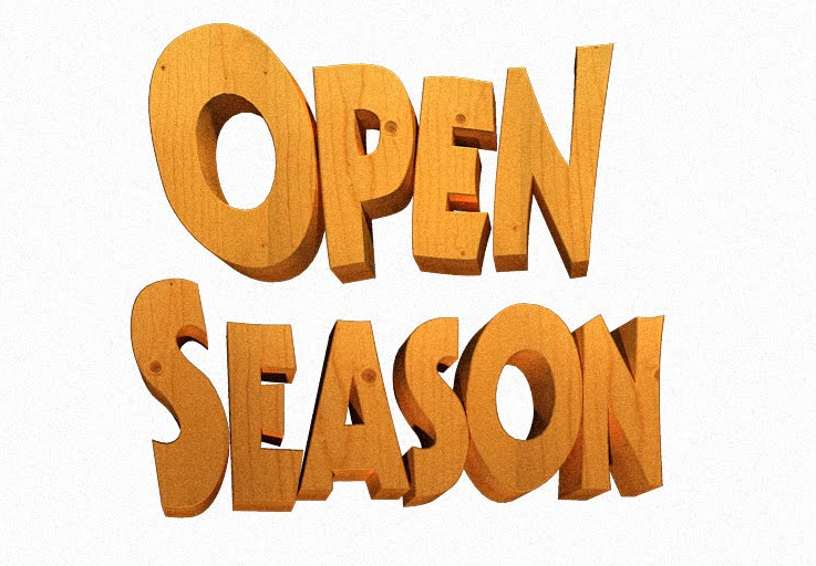 Open season logo